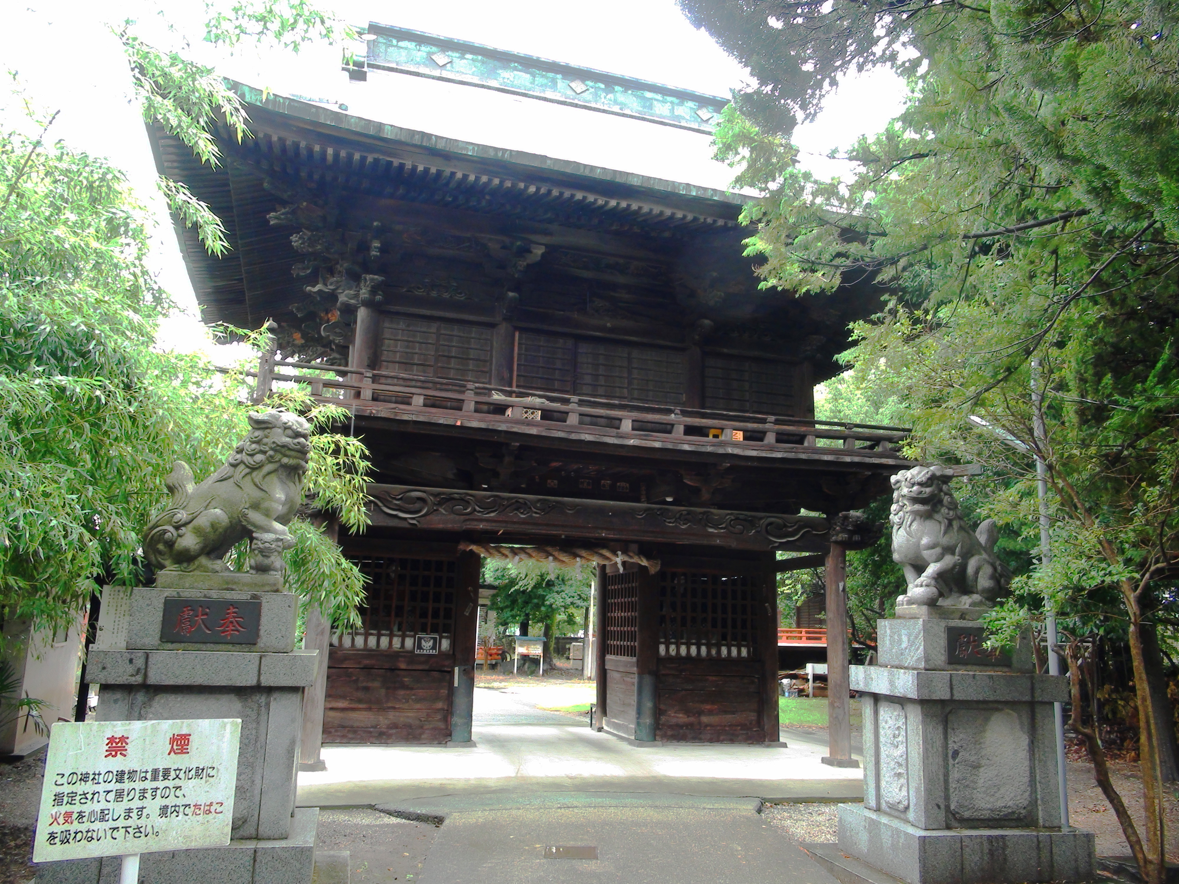 Anagiri Shrine Gate